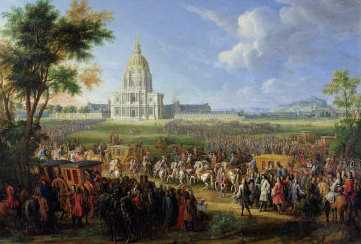 Visit of Louis XIV of France to Les Invalides.